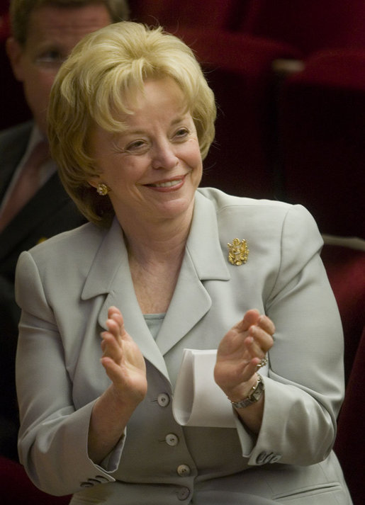 Mrs. Lynne Cheney applauds the group of naturalized American citizens as they stand to participate in the swearing in ceremony during a special naturalization ceremony at the National Archives Tuesday, April 17, 2007, in Washington, D.C.